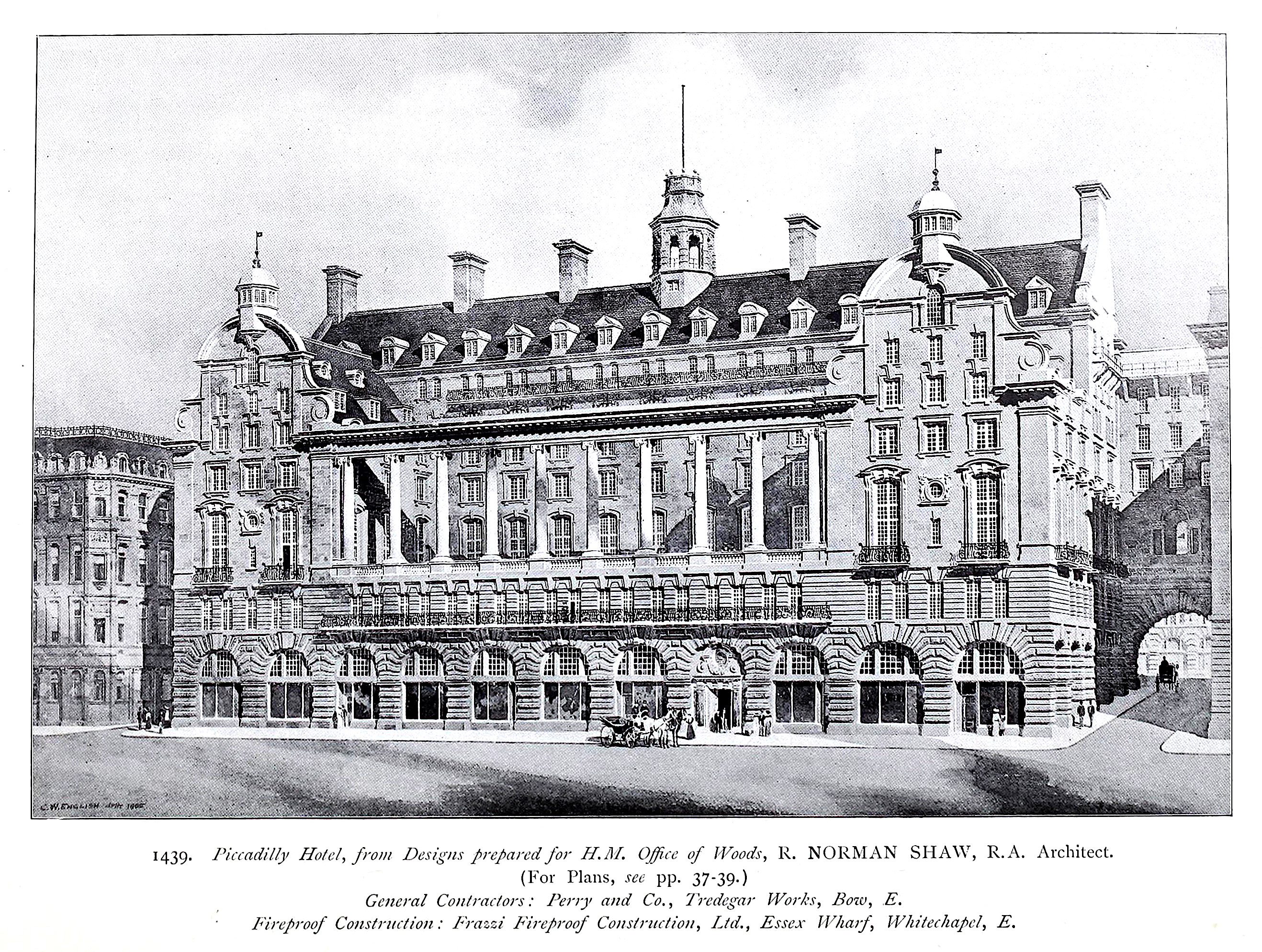 Perspective drawing.